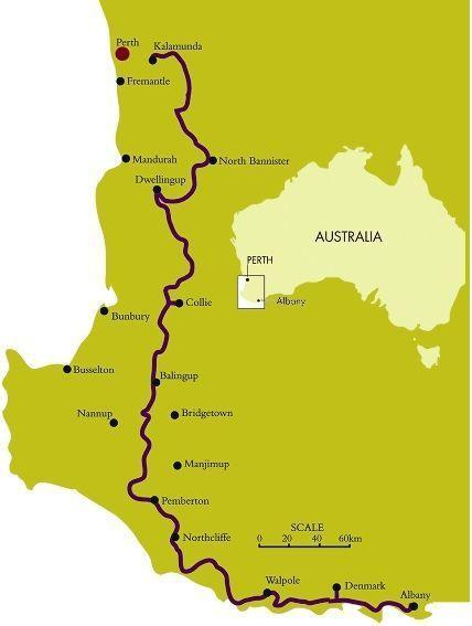 Map